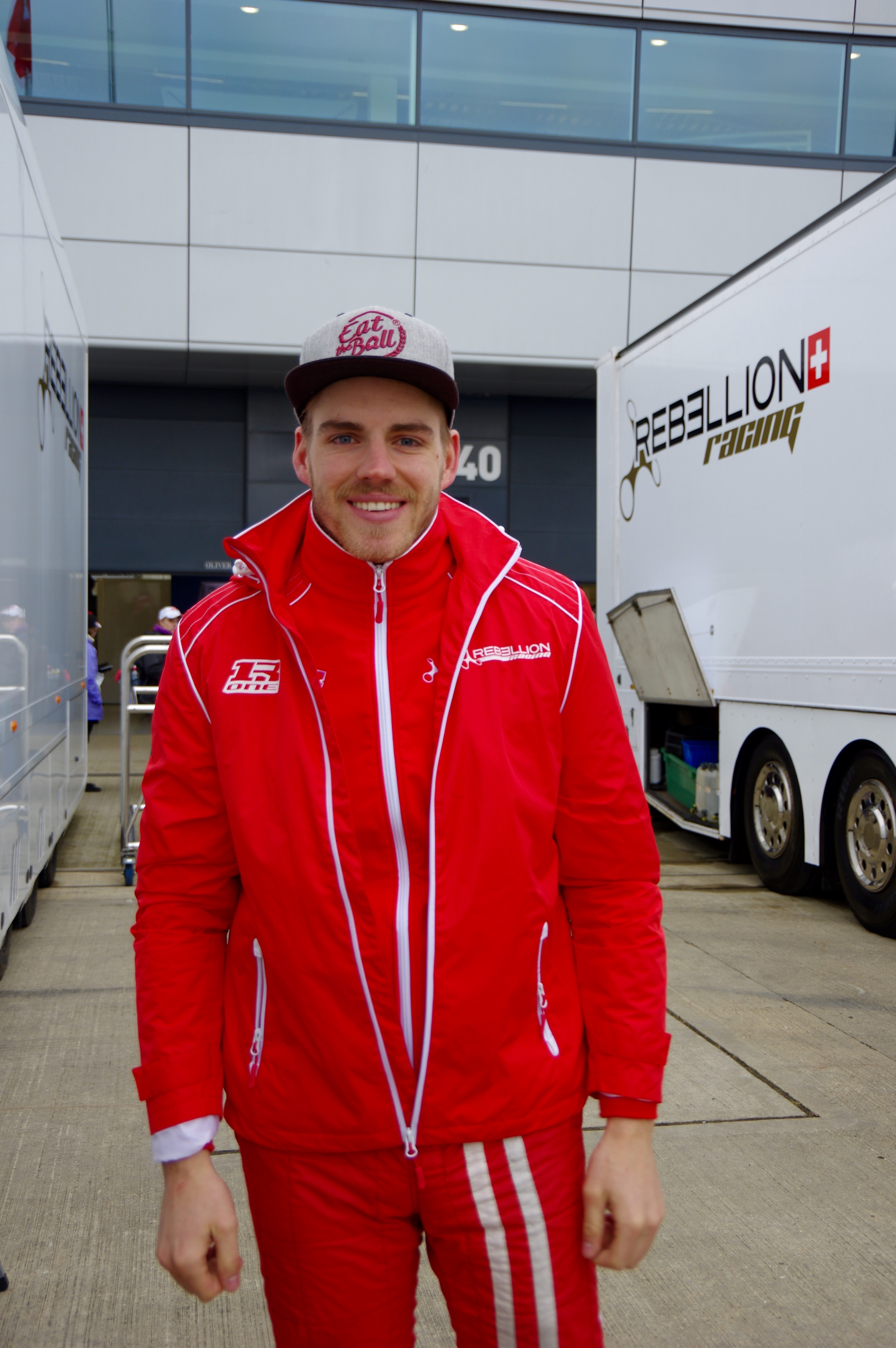 Dominik Kraihamer, driver of Rebellion Racing's Rebellion R-One AER